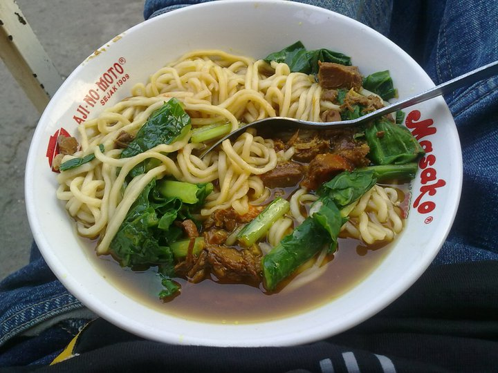 Mi ayam (chicken noodle) street vendor style